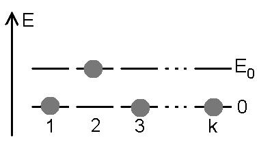 Toy Modell